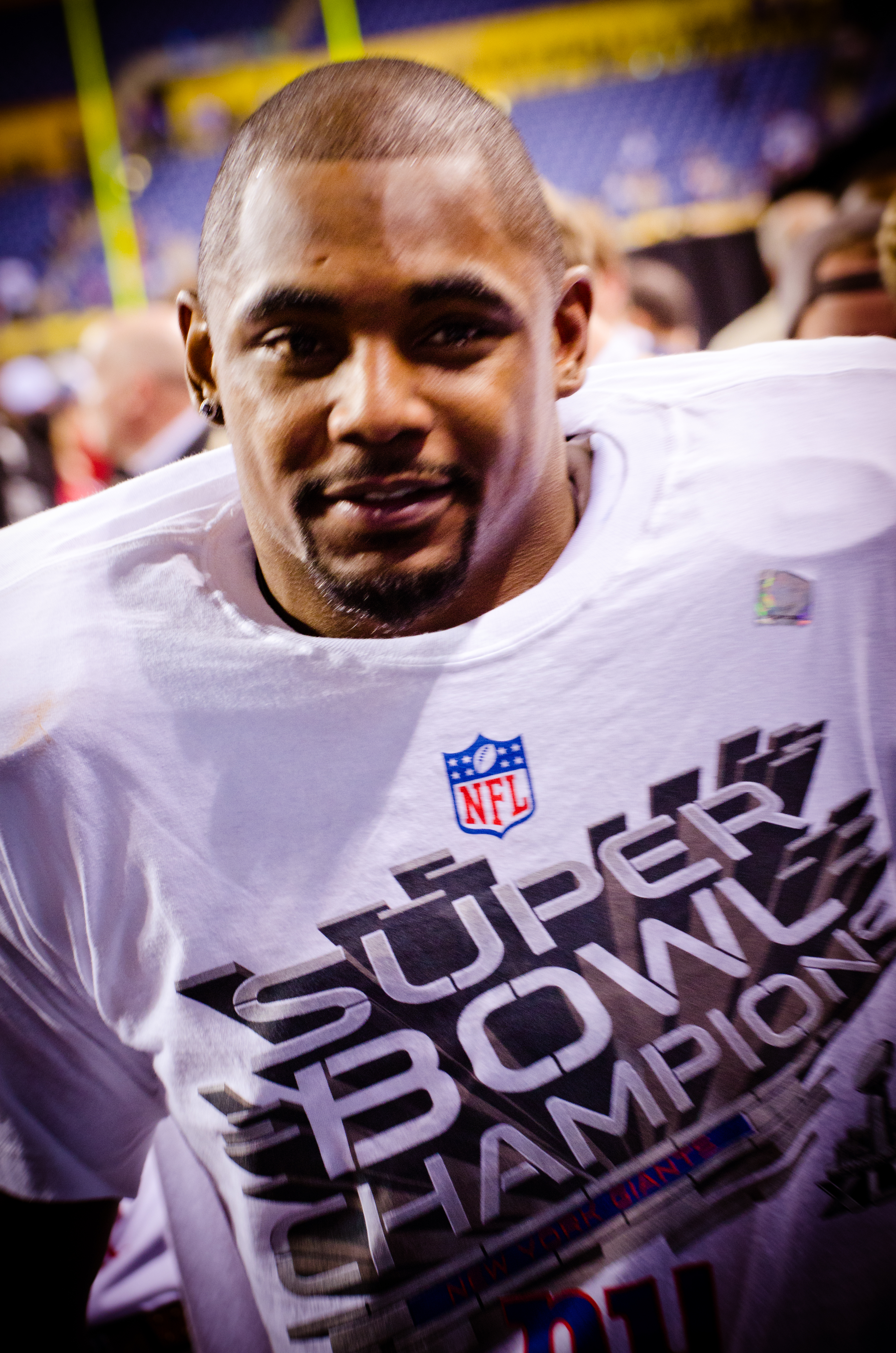 New York Giants running back, Ahmad Bradshaw, celebrating after winning Super Bowl XLVI.